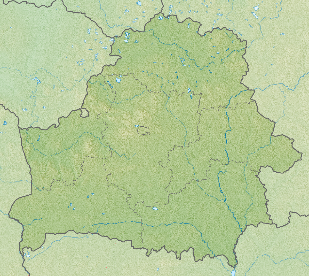 Relief map of Belarus Equirectangular projection, N/S stretching 170 %. Geographic limits of the map: N: 56.4° N S: 51.1° N W: 22.9° E E: 33.0° E